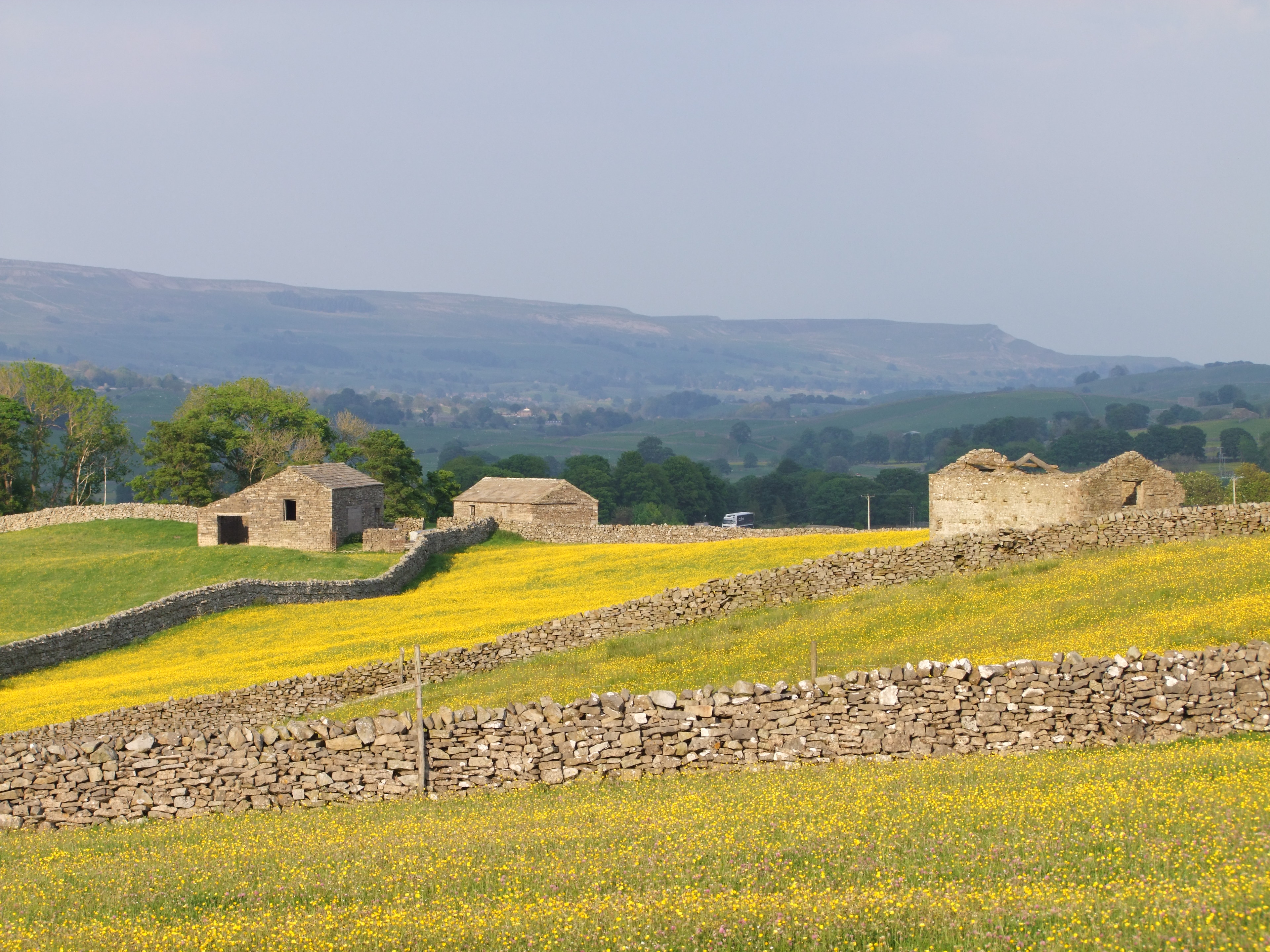 Yorkshire country side